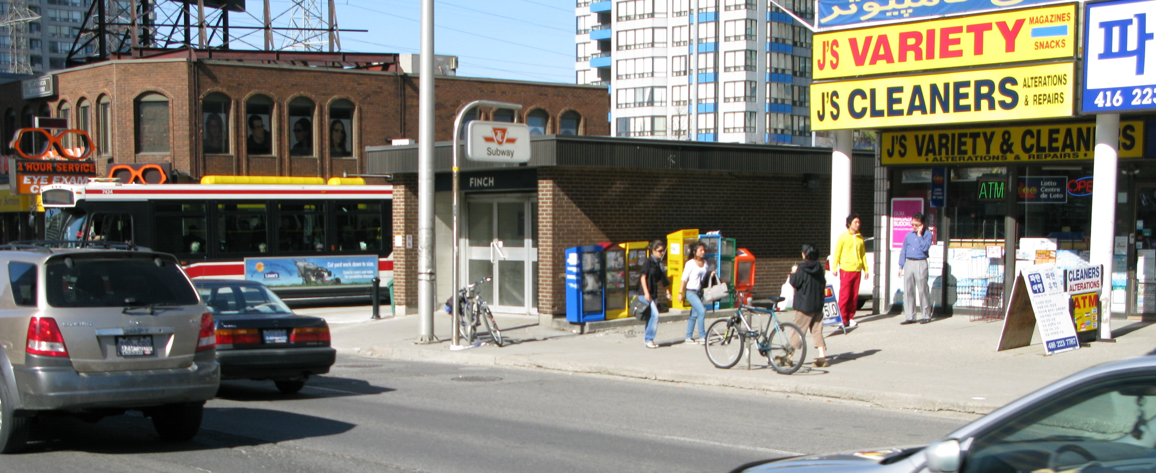 TTC Finch Station Pemberton Ave exit